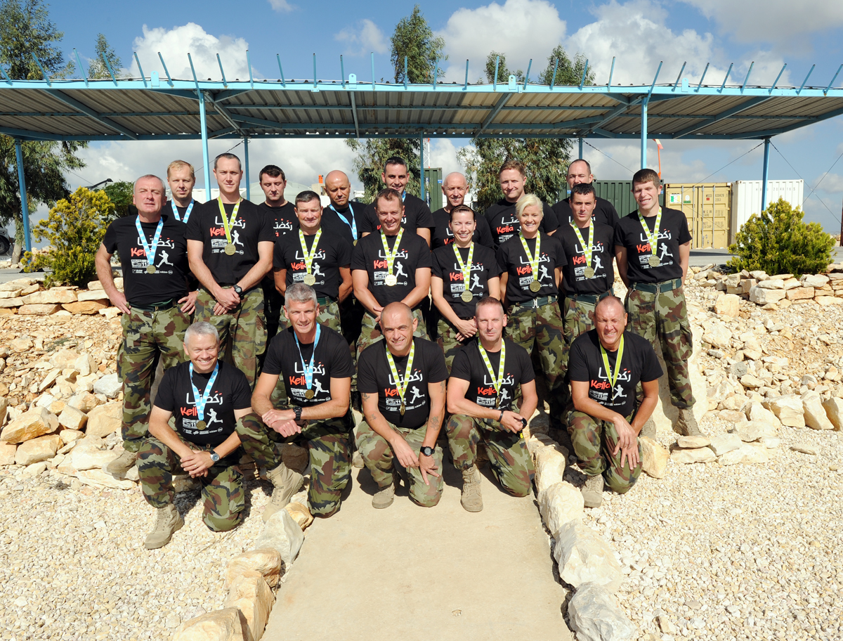 Beirut Marathon Runners 106th Bn